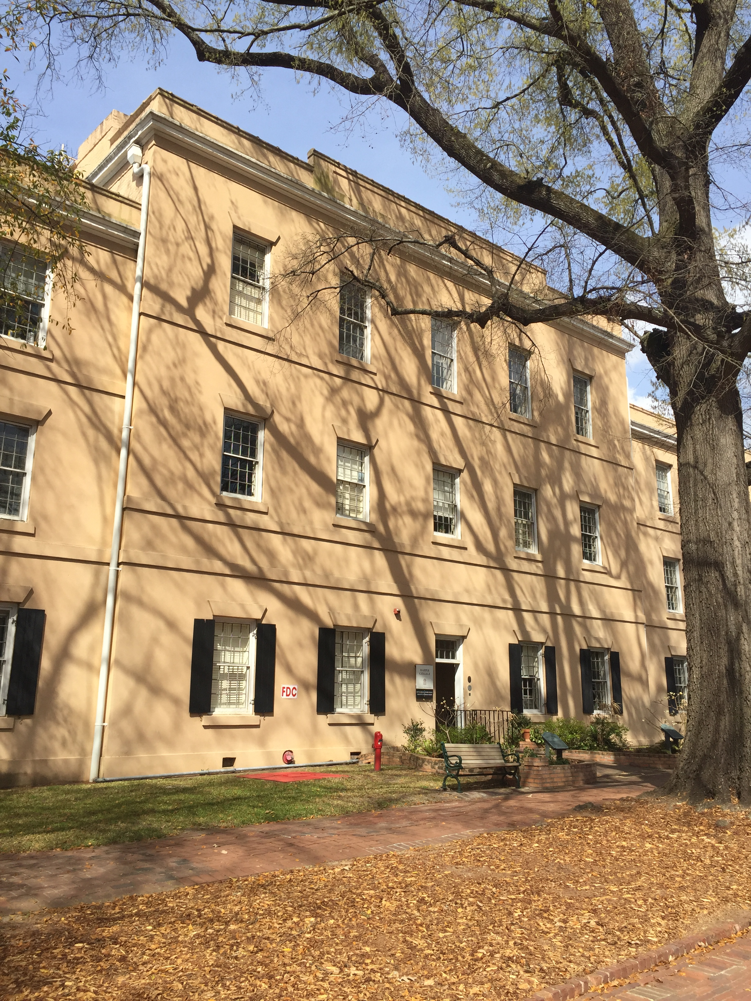 Harper College, University of South Carolina, Columbia, South Carolina